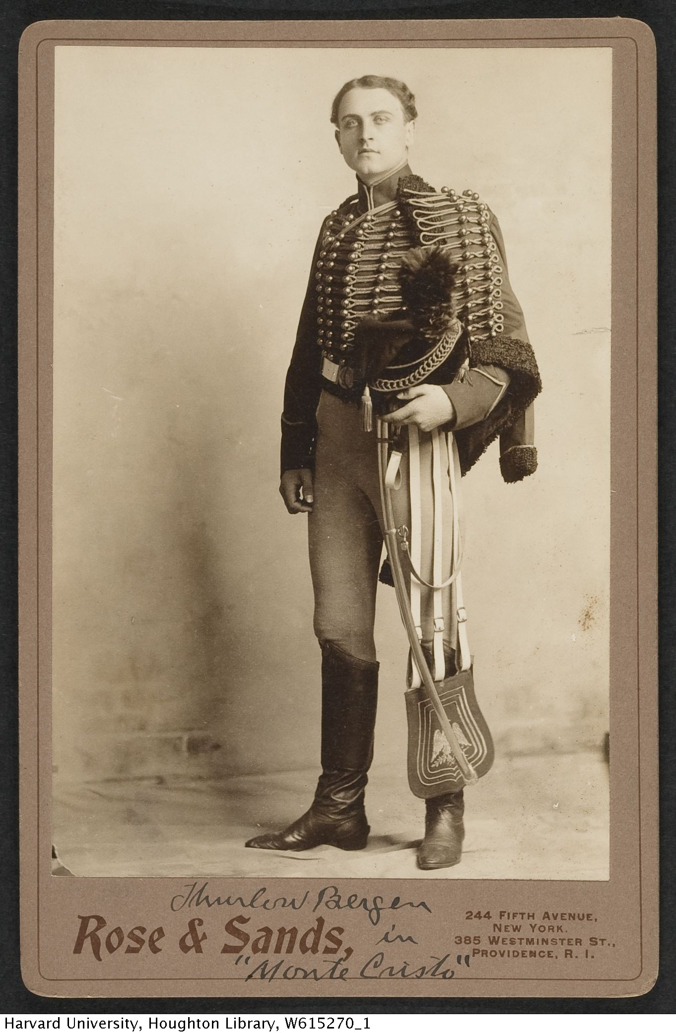 Cabinet card image of American stage and silent film actor Thurlow Bergen, posing as a character in "Monte Cristo". TCS 1.2367, Harvard Theatre Collection, Harvard University